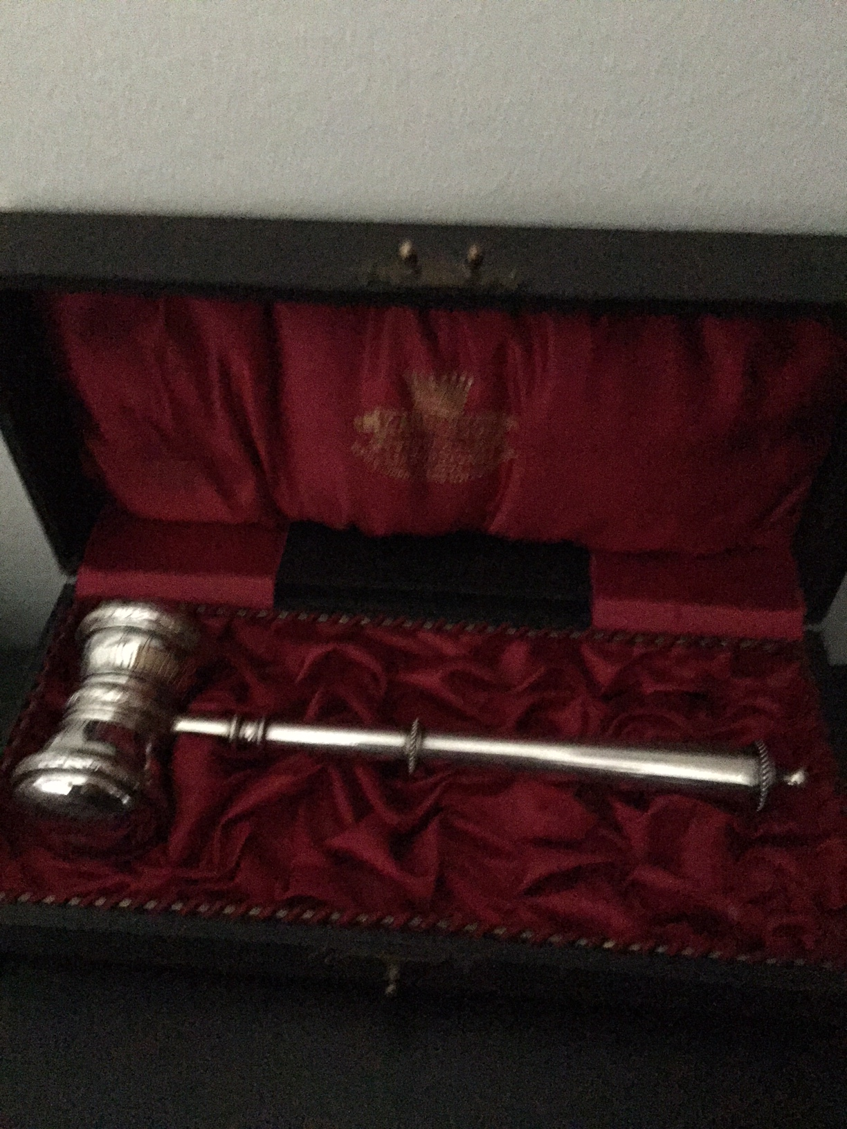 Chairman gavel